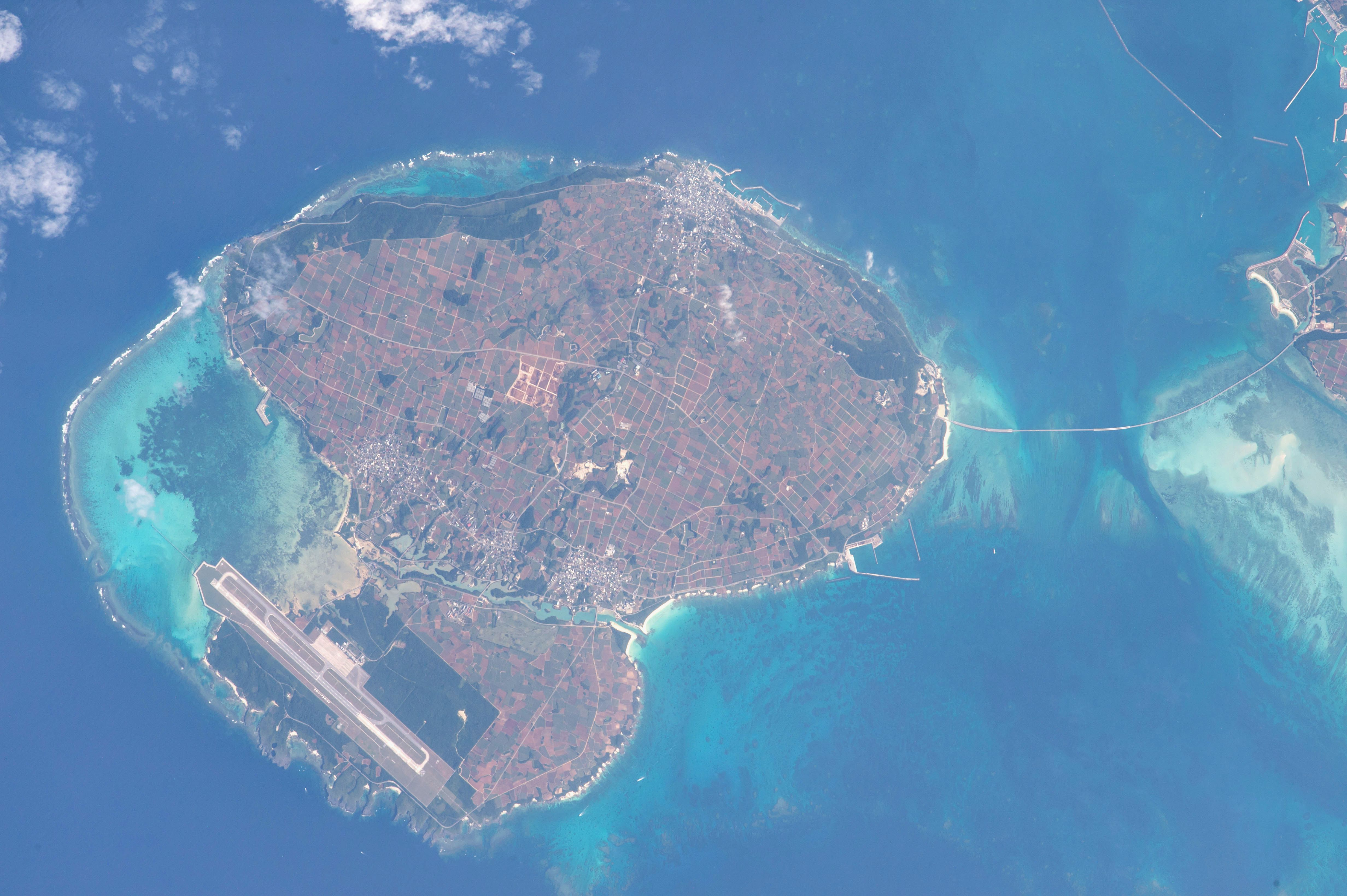 Irabu Island(center), Shimojijima Airport in Shimoji Island(below), and Irabu Bridge(right), located in Miyakojima, Okinawa prefecture, Japan.